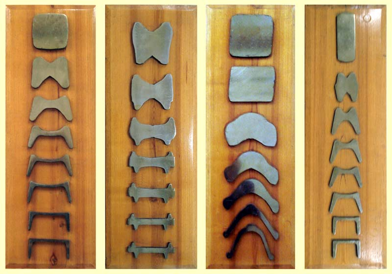 Cross-sections of various products that are produced using continuous rolling. The cross-sections are taken after each rolling mill.